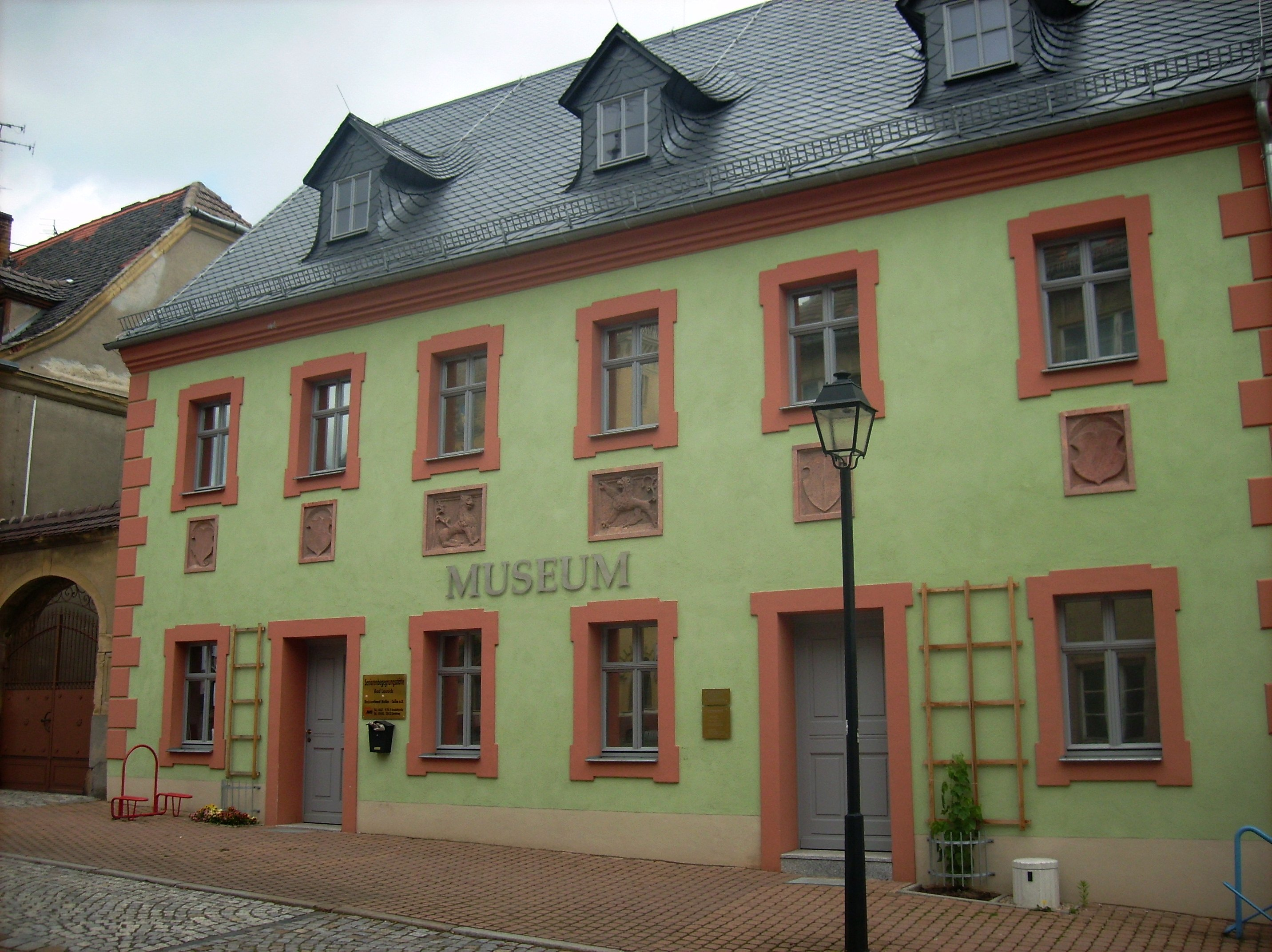 Museum of health cures and local history, Bad Lausick (Leipzig district, Saxony)